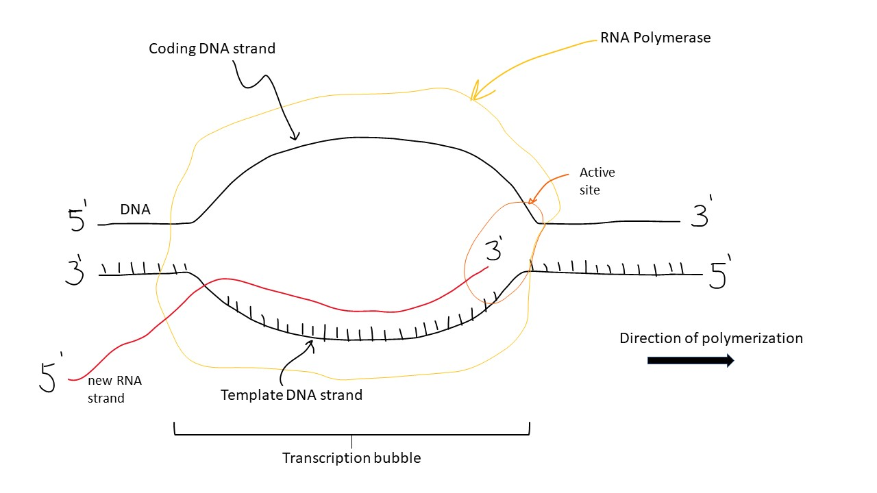 A molecular structure composed of unwound and unpaired DNA, where a short stretch of nucleotides are exposed on each strand of the double helix, allowing RNA polymerase binding, and nascent RNA synthesis within this region.